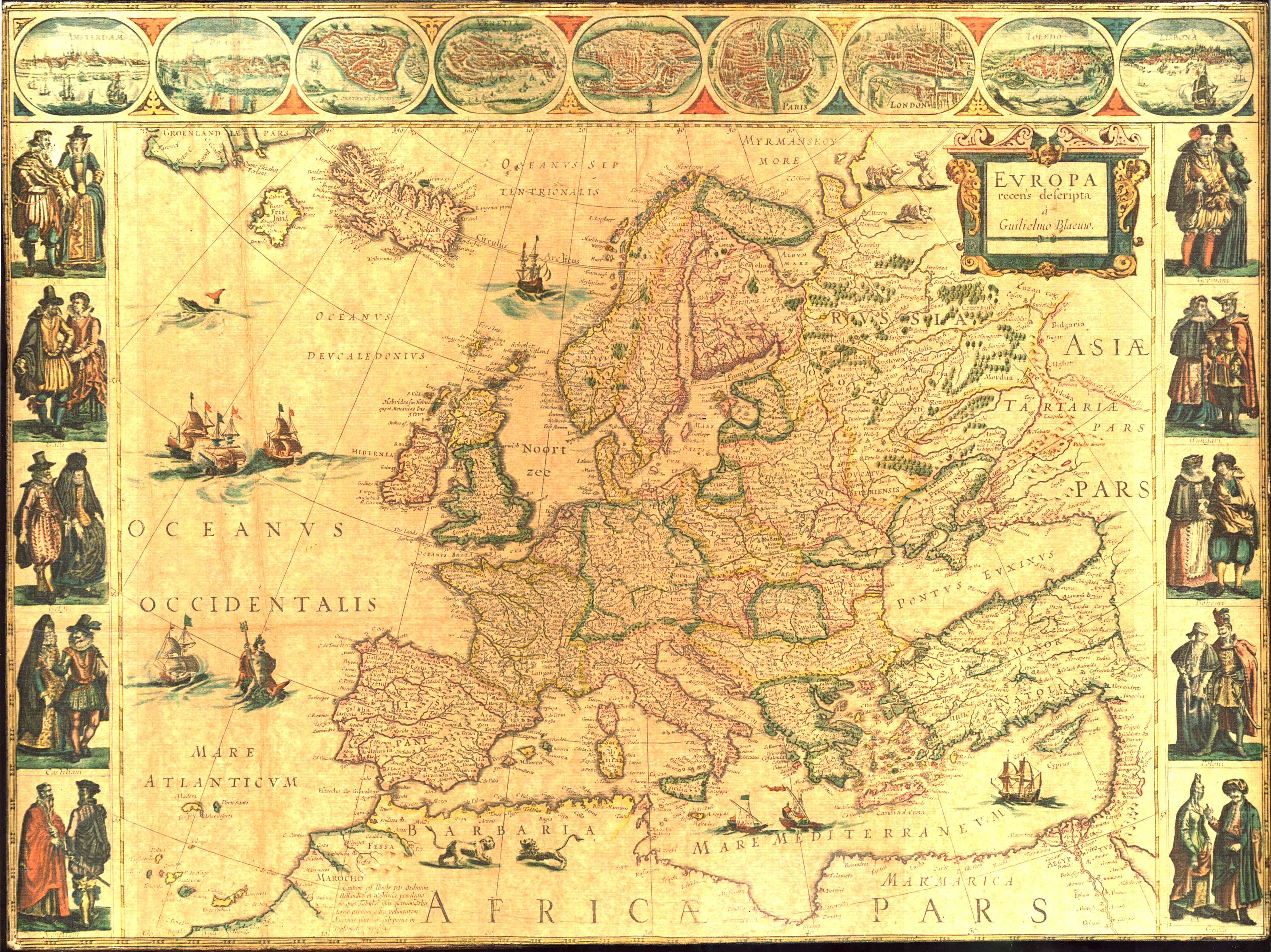 Old map of Europe.